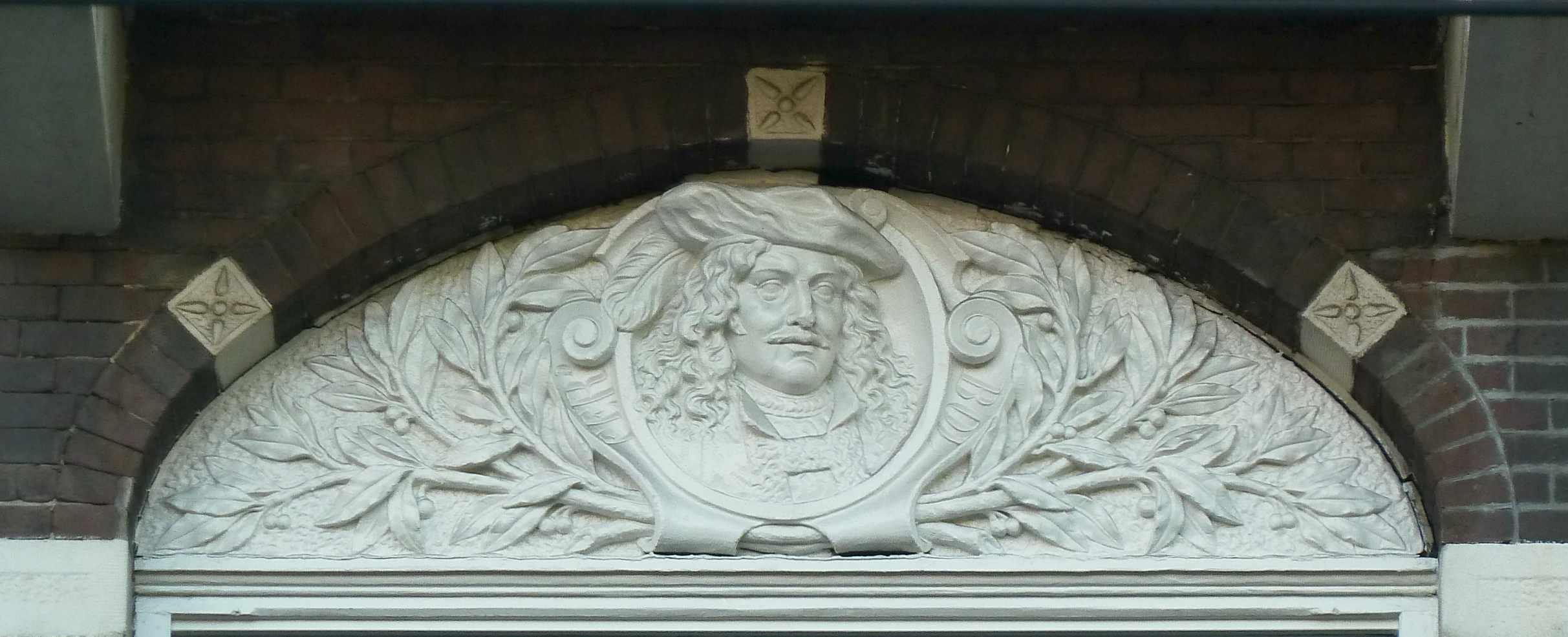 Relief in the discharging arch above a window at Ferdinand Bolstraat 49; at the centre the figure of Dutch painter Ferdinand Bol (after whom the street is named).